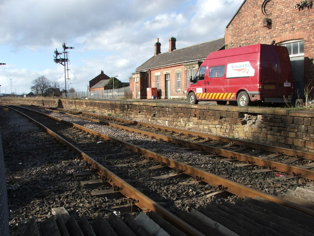 Disused Railway Station. A disused station possibly now used for storage. It's a shame that these buildings are now left to rack and ruin.